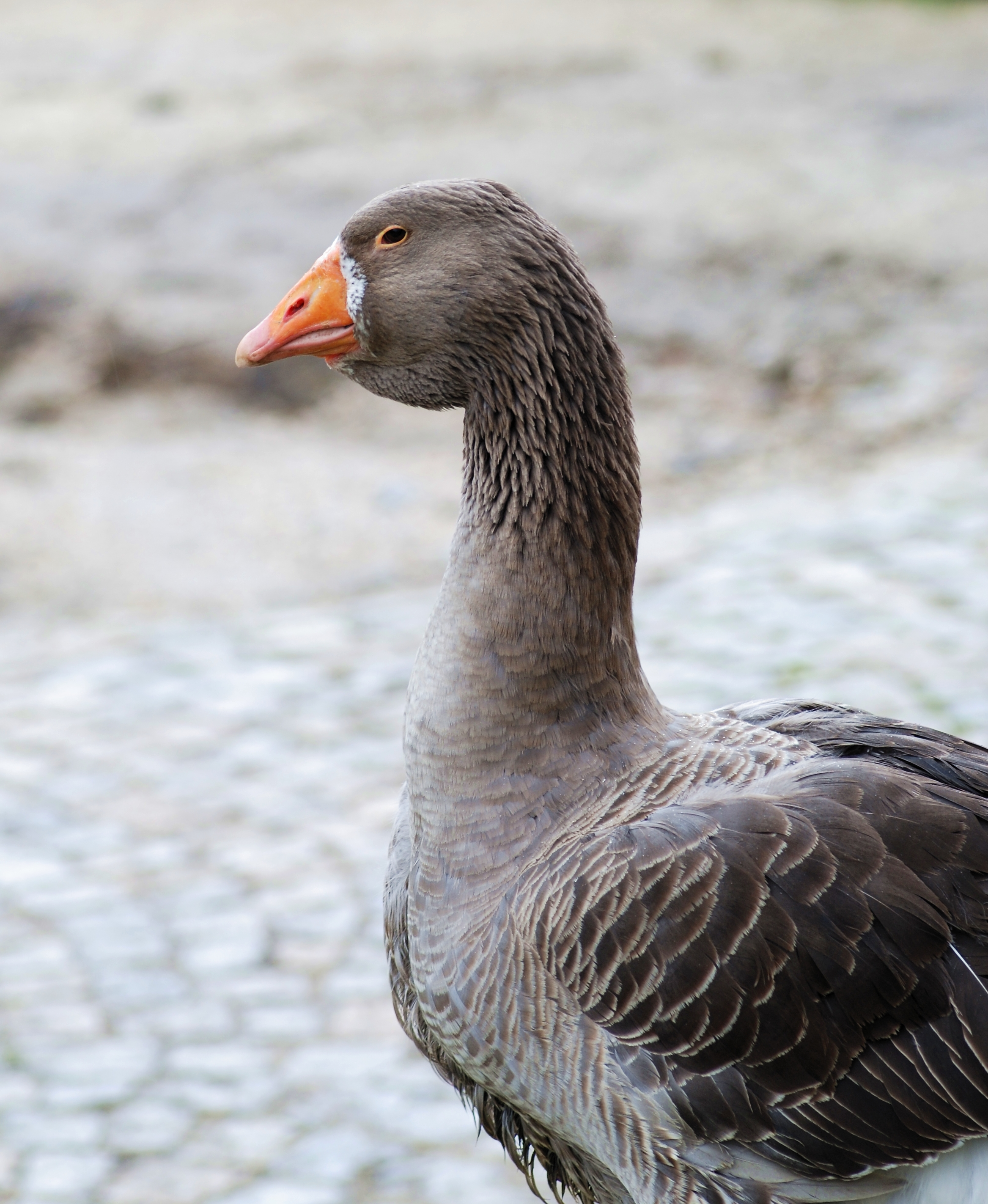 Portrait of a domesticated goose Anser